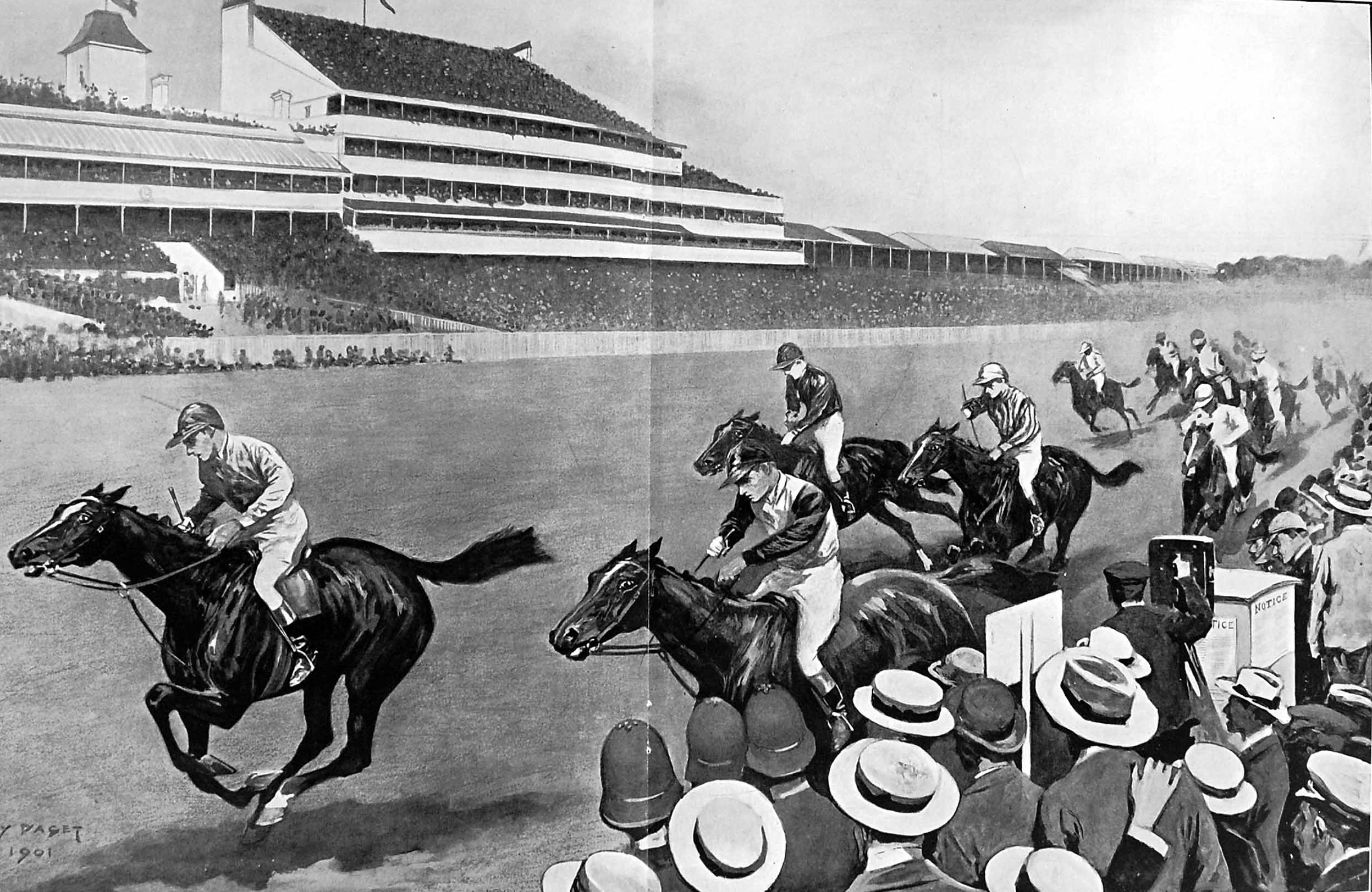 Finish of the 1901 Epsom Derby. Volodyovski beats William the Third. Etching from "The Sphere" by Sidney Paget